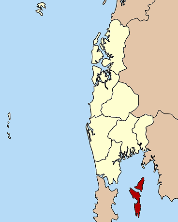 Map of Phang Nga province, Thailand, highlighting the district Ko Yao (geocode 8202).